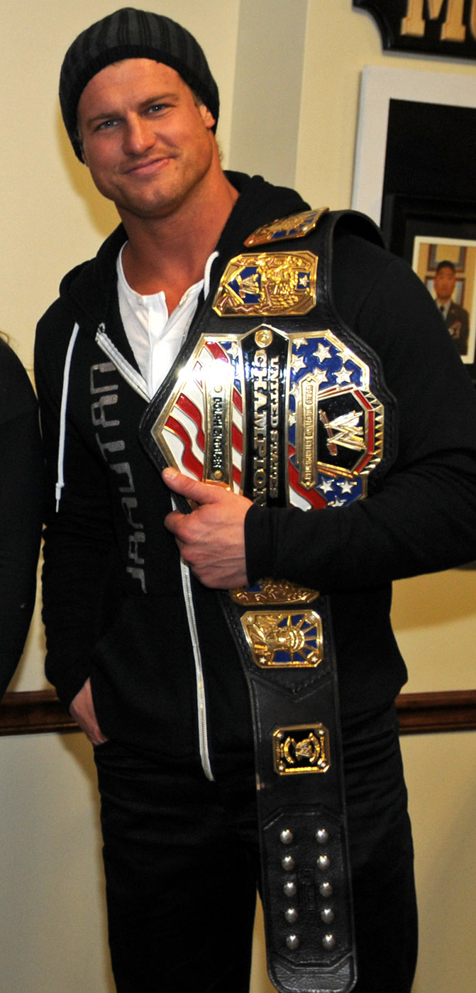 Dolph Ziggler away from the ring paying tribute to U.S. troops stationed in Fort Bragg.